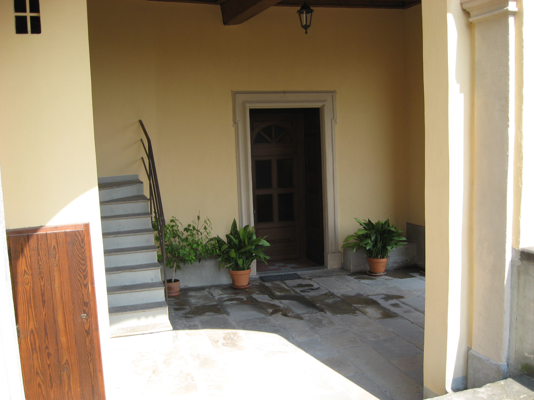 Sant'Anna chapel entrance at the "Chiesa dei Santi Marcellino e Pietro" in Imbersago, Italy